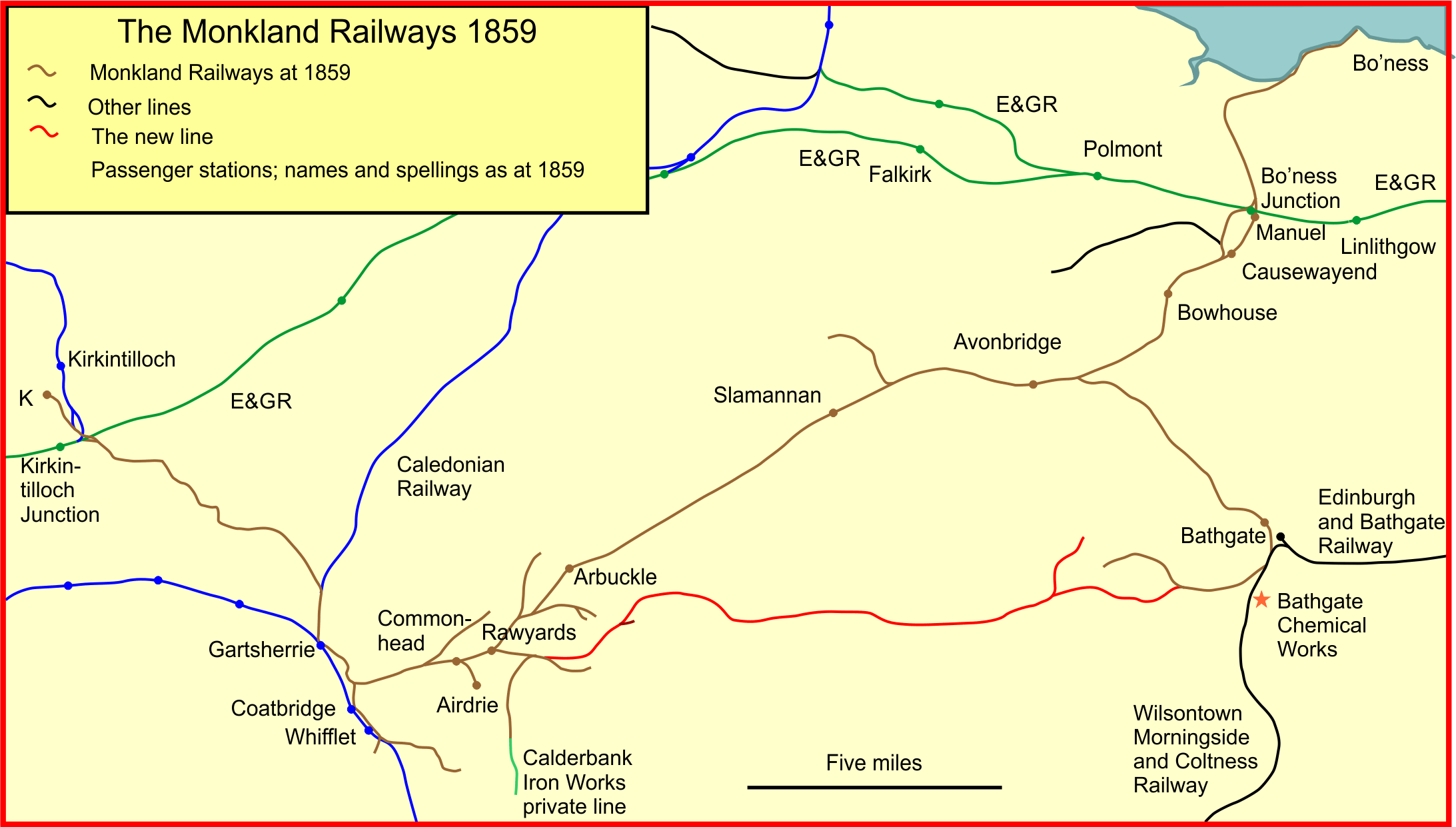 DIagram of Monkland Railways network in 1859